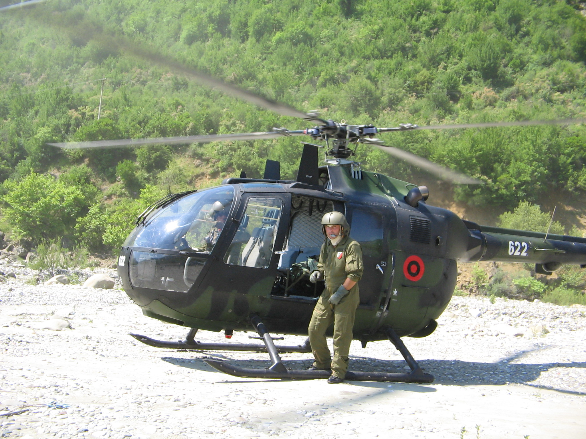 The first BO-105 to enter service with the Albanian Air Brigade.